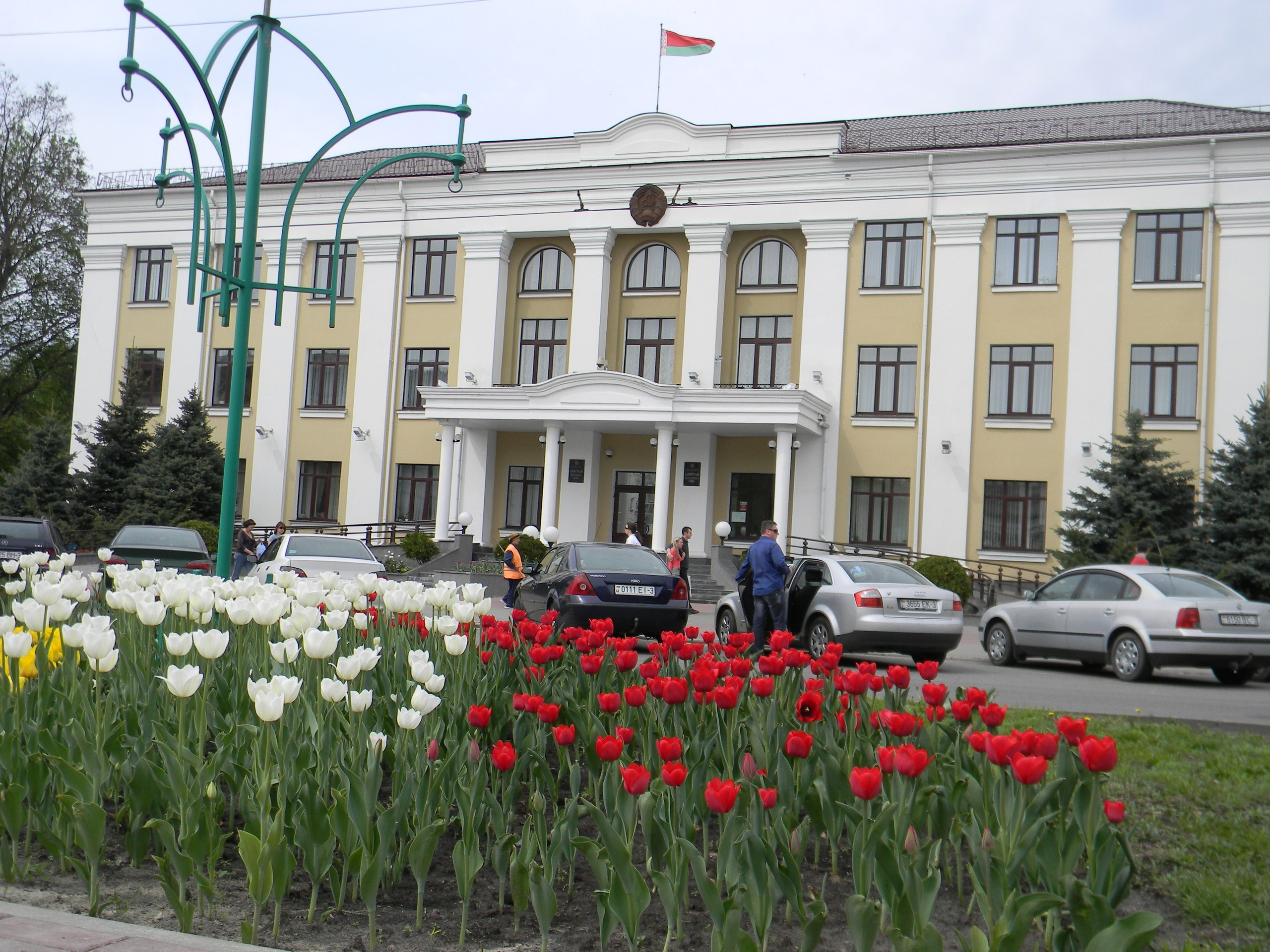 Building of Railway raion administration Gomel city, Belarus